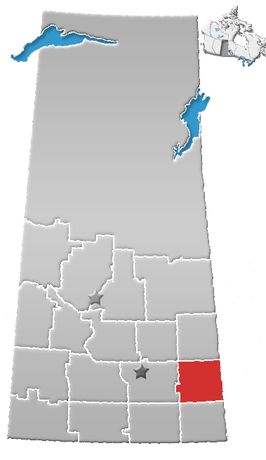 Saskatchewan census area No. 05